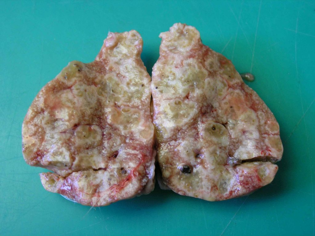 avian tuberculosis (liver of vulture)